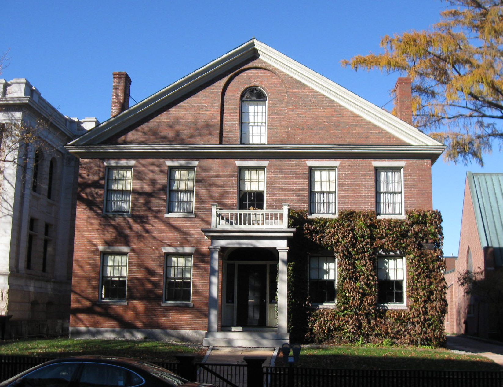 The Upham-Walker House, downtown Concord, New Hampshire.